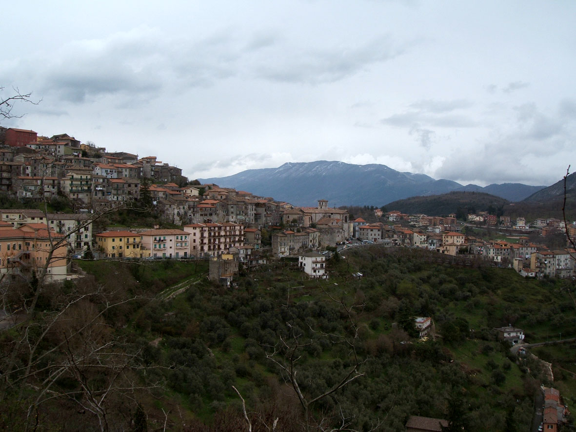 Segni, Province of Rome, Italy